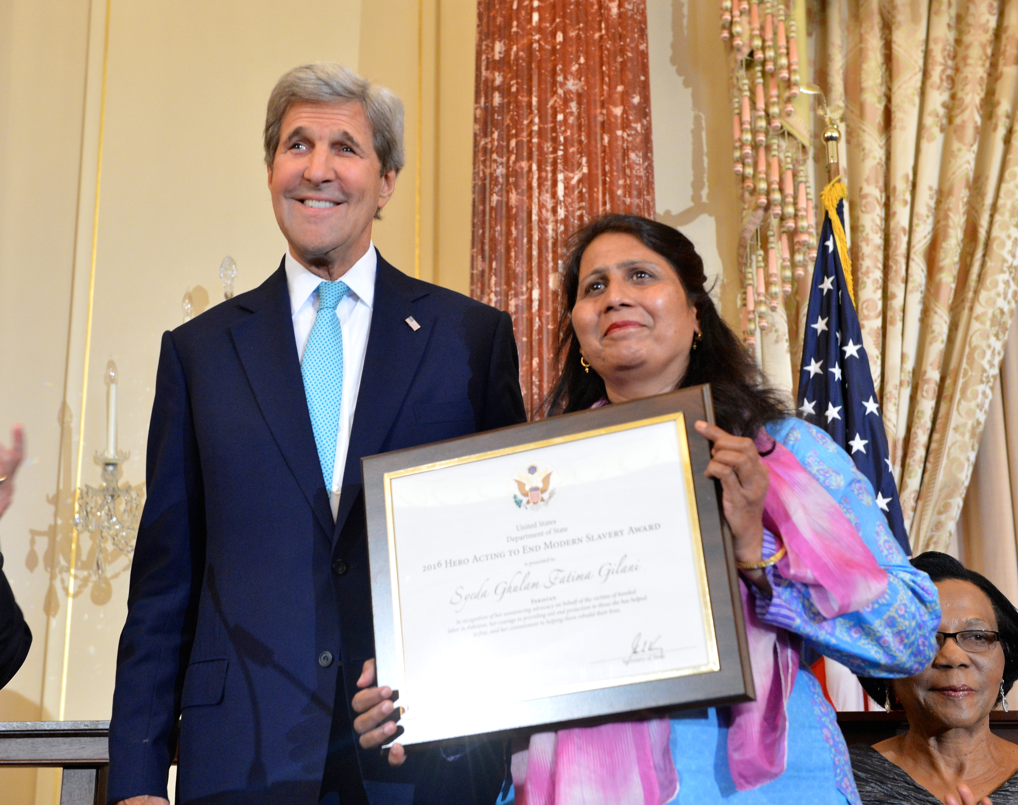 U.S. Secretary of State John Kerry poses for a photo with Syeda Ghulam Fatima of Pakistan, a 2016 Trafficking in Persons (TIP) Report Hero, at the U.S. Department of State in Washington, D.C., on June 30, 2016. The TIP Report Heroes are nine men and women from around the world who fought against human trafficking. [State Department Photo/ Public Domain]